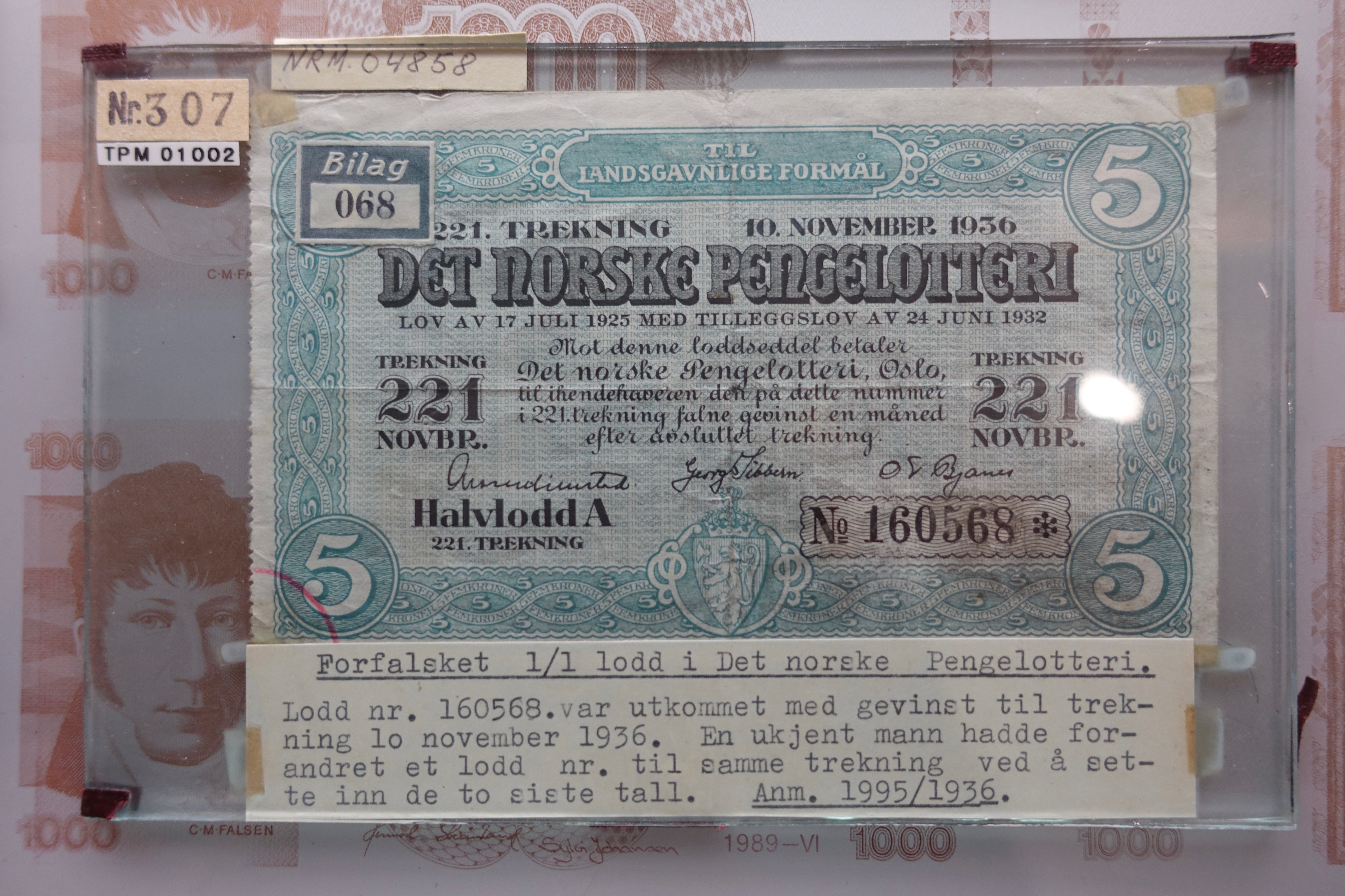 Counterfeit money etc. in Norway exhibited at the Norwegian National Museum of Justice (Justismuseet i det tidligere Kriminalasylet) in Trondheim: Forged/fake lottery ticket 1936 ("forfalsket lodd i Pengelotteriet 1936"). Photo taken on 4th April 2019.